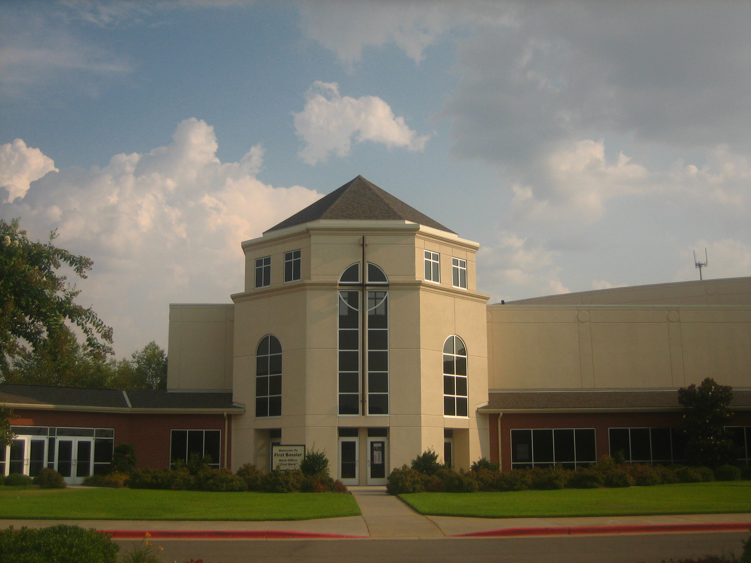 First Baptist of Bossier City building, LA